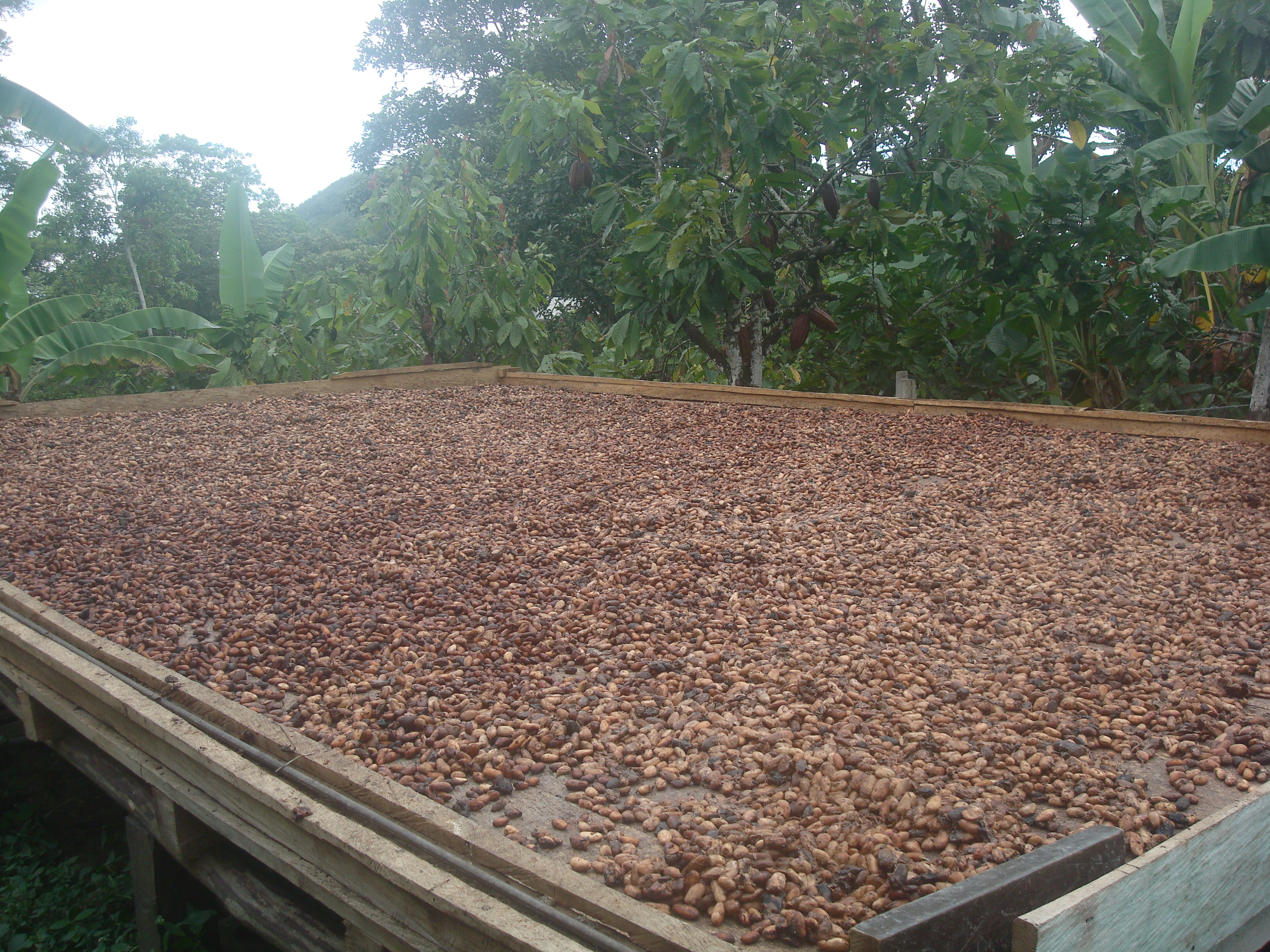 Cacao beans drying in Cunday (Tres Esquinas), Colombia